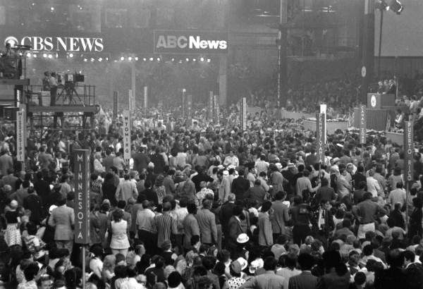 Local call number: we091 Title: 1972 Democratic Convention - Miami Beach Date: 1972 Physical descrip: 1 photoprint - b&w - 5 x 7 in. Series Title: Joseph Wendler Collection Repository: State Library and Archives of Florida, 500 S. Bronough St., Tallahassee, FL 32399-0250 USA. Contact: 850.245.6700. Persistent URL